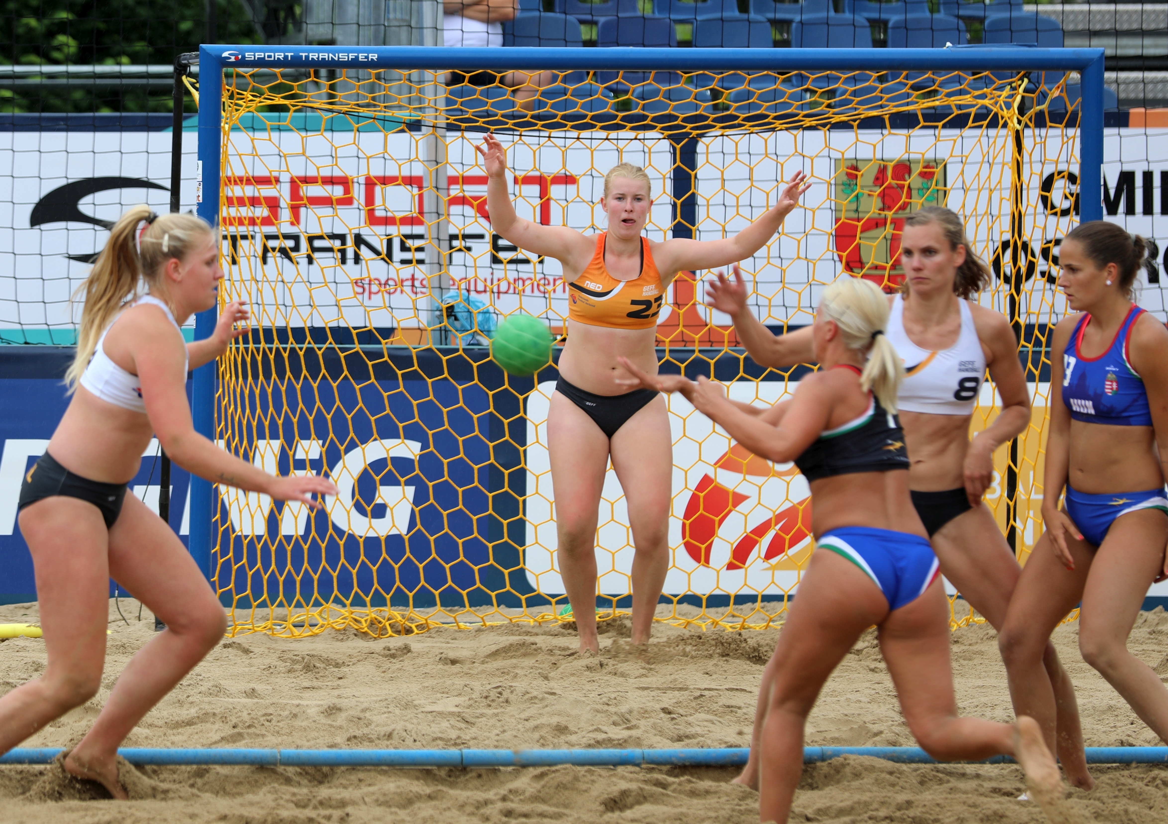 Beach handball Euro; Day 5: 6 July 2019 – Semifinal Women – Hungary-Netherlands 2:0 (19:16, 15:12)